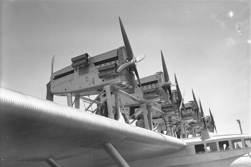 The engines of the first Do X after being re-engined with 12 Curtiss V-1570 Conquerors